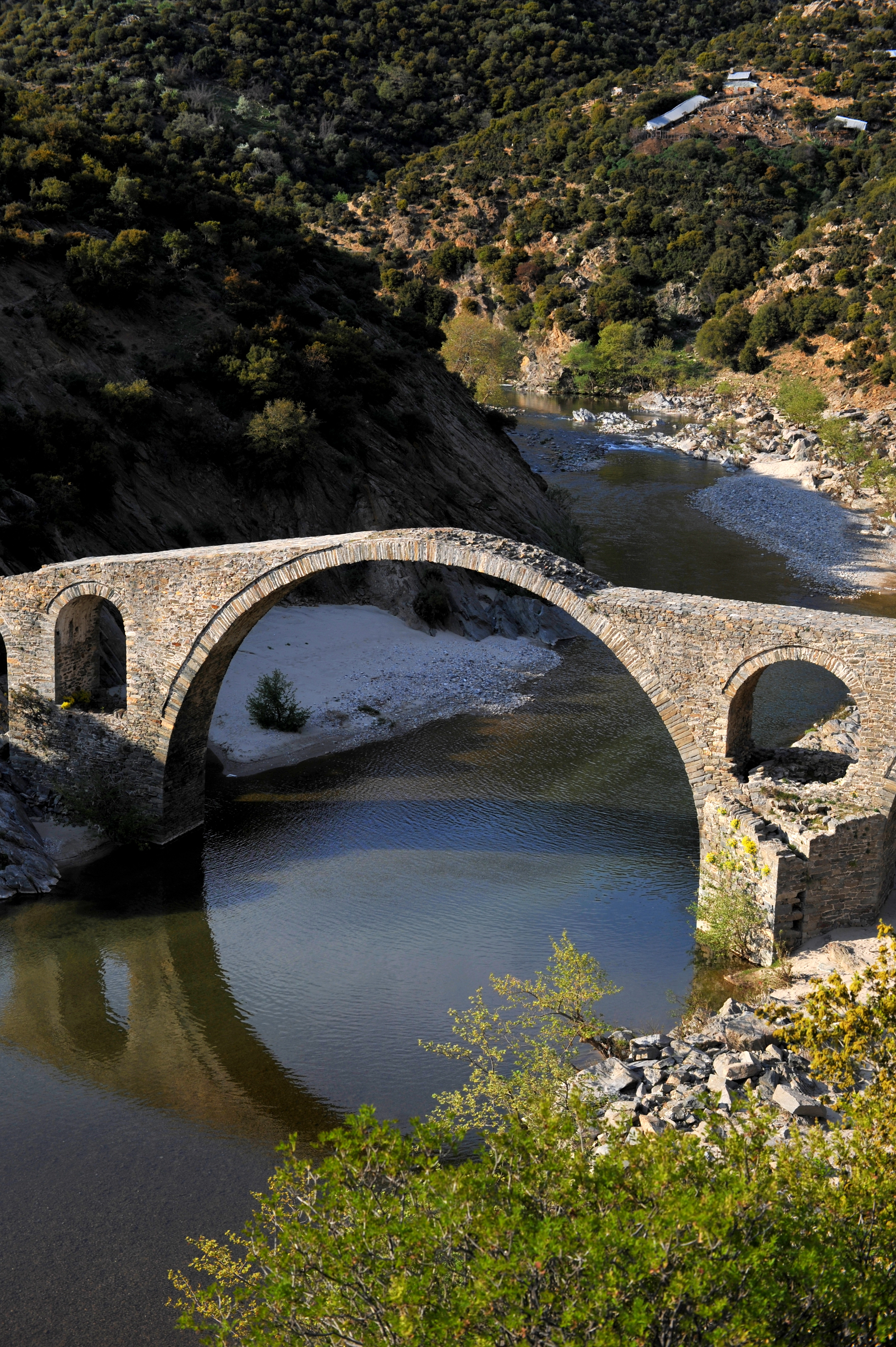 17-18 century bridge - Kompsatos river, Thrace, Greece. It has opening 21,8 meters, height 12 meters. The east part has opening 17 meters.